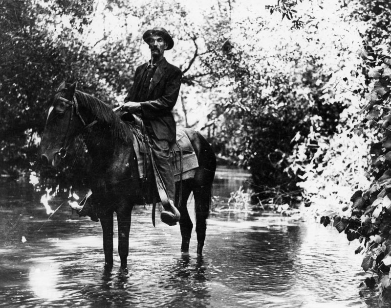 Ed Hunt, park policeman for Griffith Park, crosses the Los Angeles River on horseback in 1911.